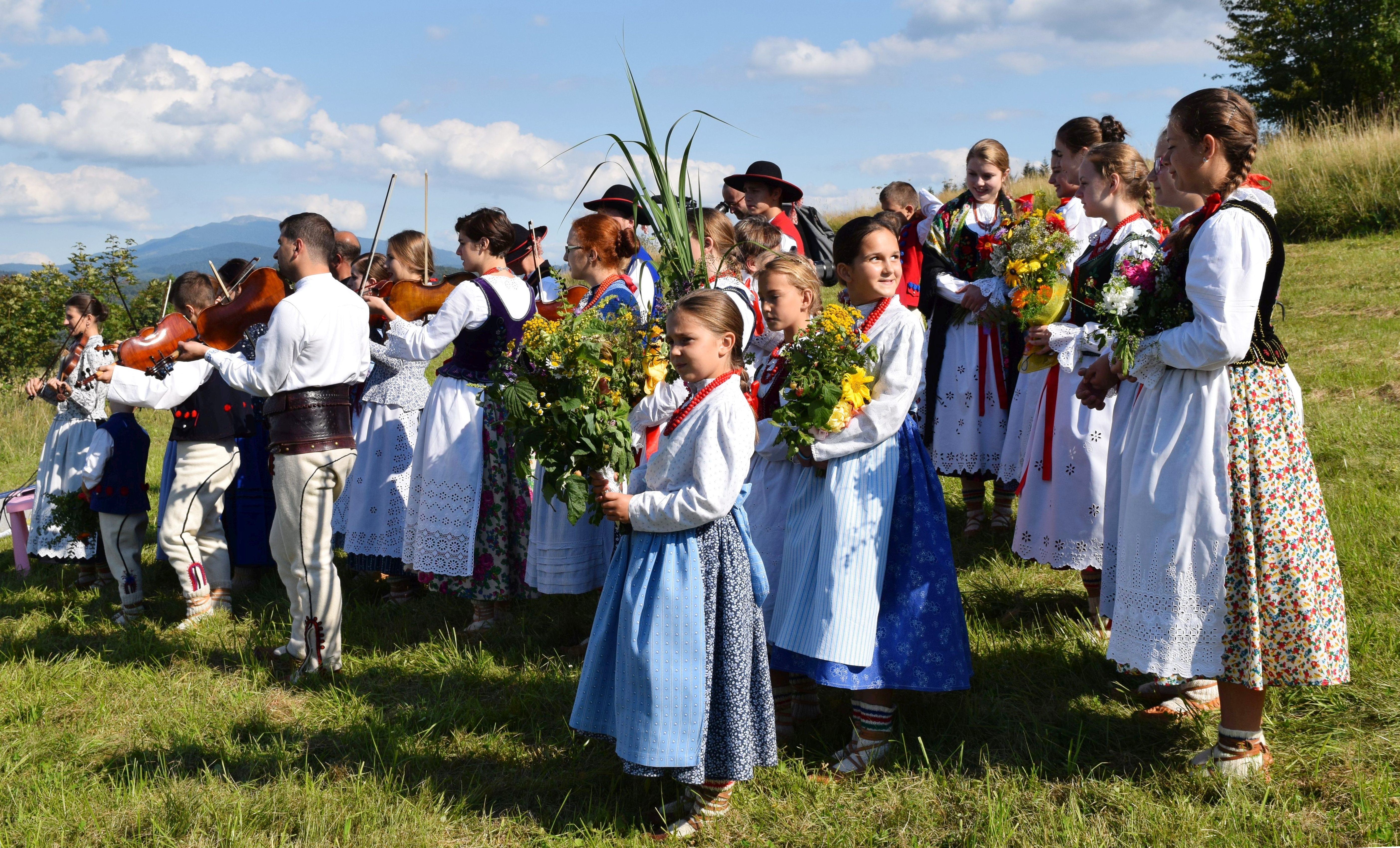 Members of "Grojcowianie" folklore group in Żywiec Beskids clothing during the festival of the Assumption of the Holy Mary in Juszczyna, 2016